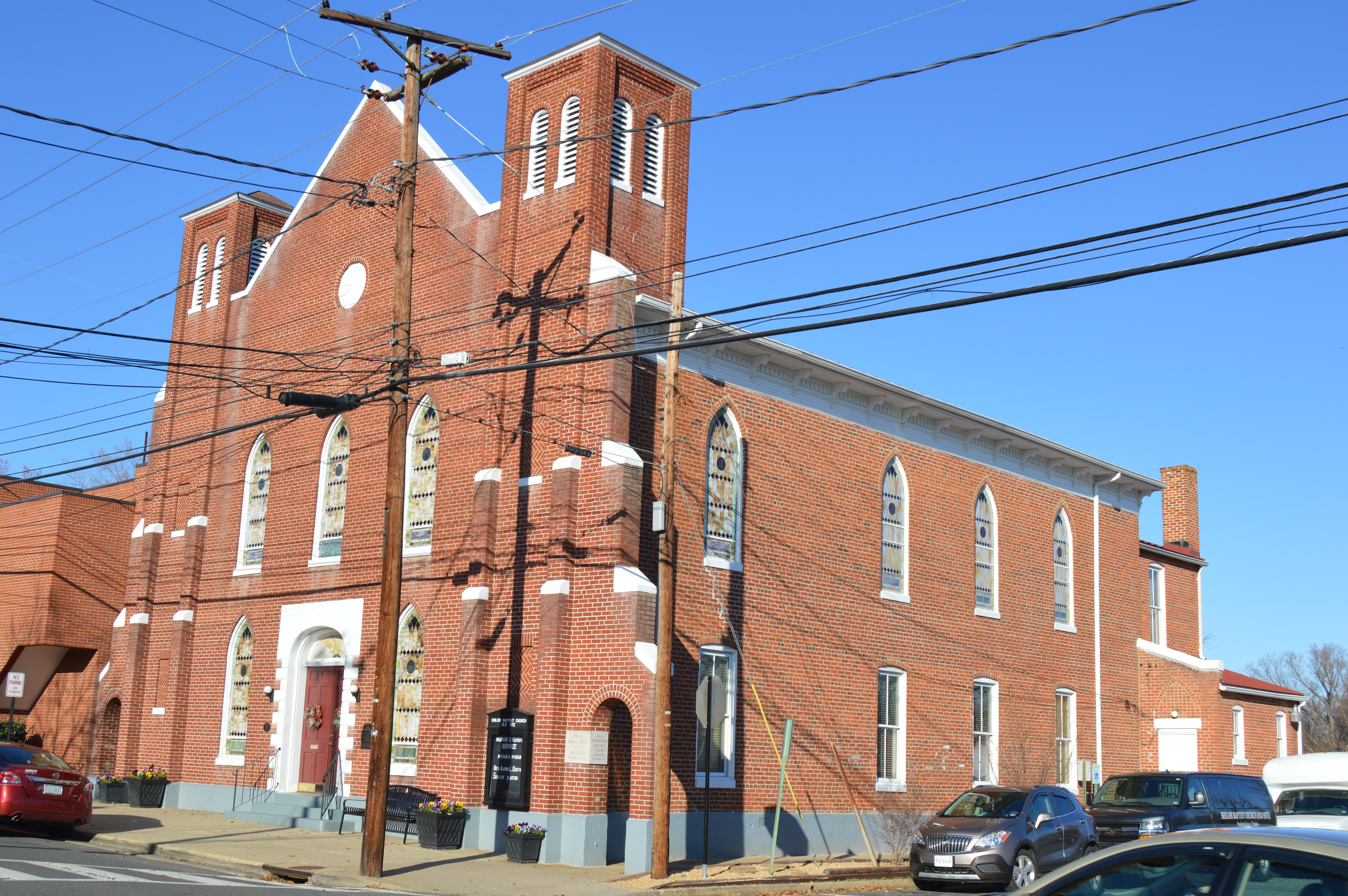 Front and southern side of Shiloh Baptist Church (Old Site), located at 801 Sophia Street in Fredericksburg, Virginia, United States. Built in 1890, it is listed on the National Register of Historic Places.